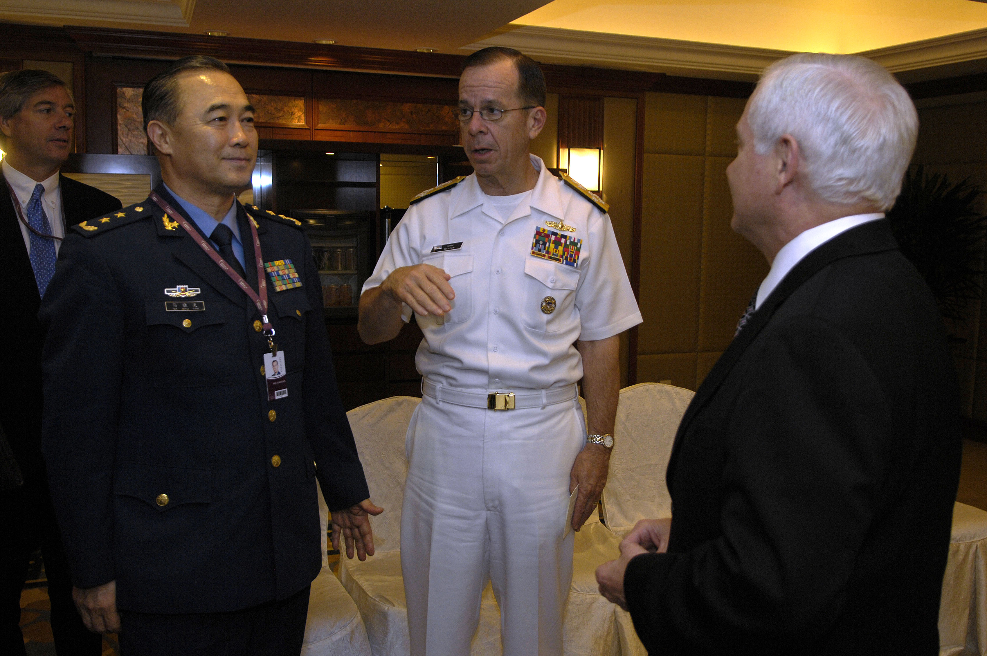 Chinese Lt General Ma Xiaotian, left, deputy chief of staff of the People's Liberation Army, talks with U.S. Navy Adm. Mike Mullen, chairman Joint Chiefs of Staff, and U.S. Defense Secretary Robert M. Gates during the 7th annual Asia Security Summit, known as the Shangri-La Dialogue, in Singapore, May 31, 2008. Defense Dept. photo by U.S. Air Force Tech. Sgt. Jerry Morrison